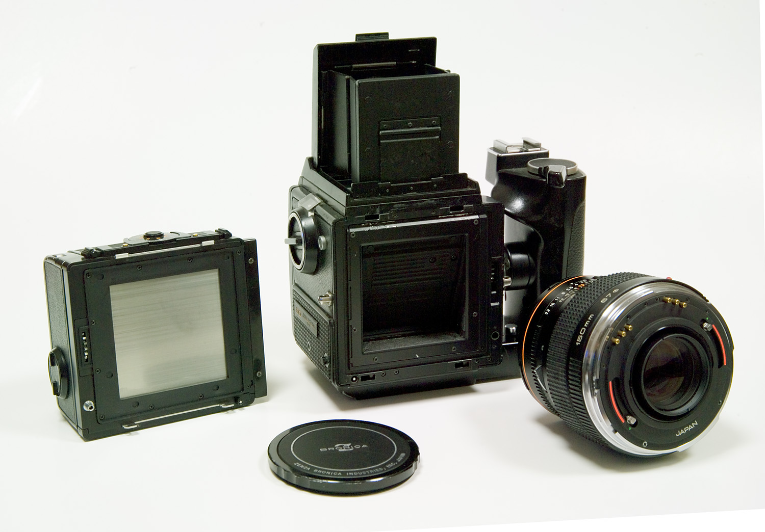 Zenza Bronica SQ camera with hand grip/winder and waist-level finder and Zenzanon-S 1:3.5 f=150mm lens. (rear, left to right) Film back, body (the end where the back mounts) with grip, lens. (front) Lens cap. I took this photo and contribute my rights in the file to the public domain; people and organizations retain rights to images in it. See also Image:Bronica_SQ_M3355.jpg.